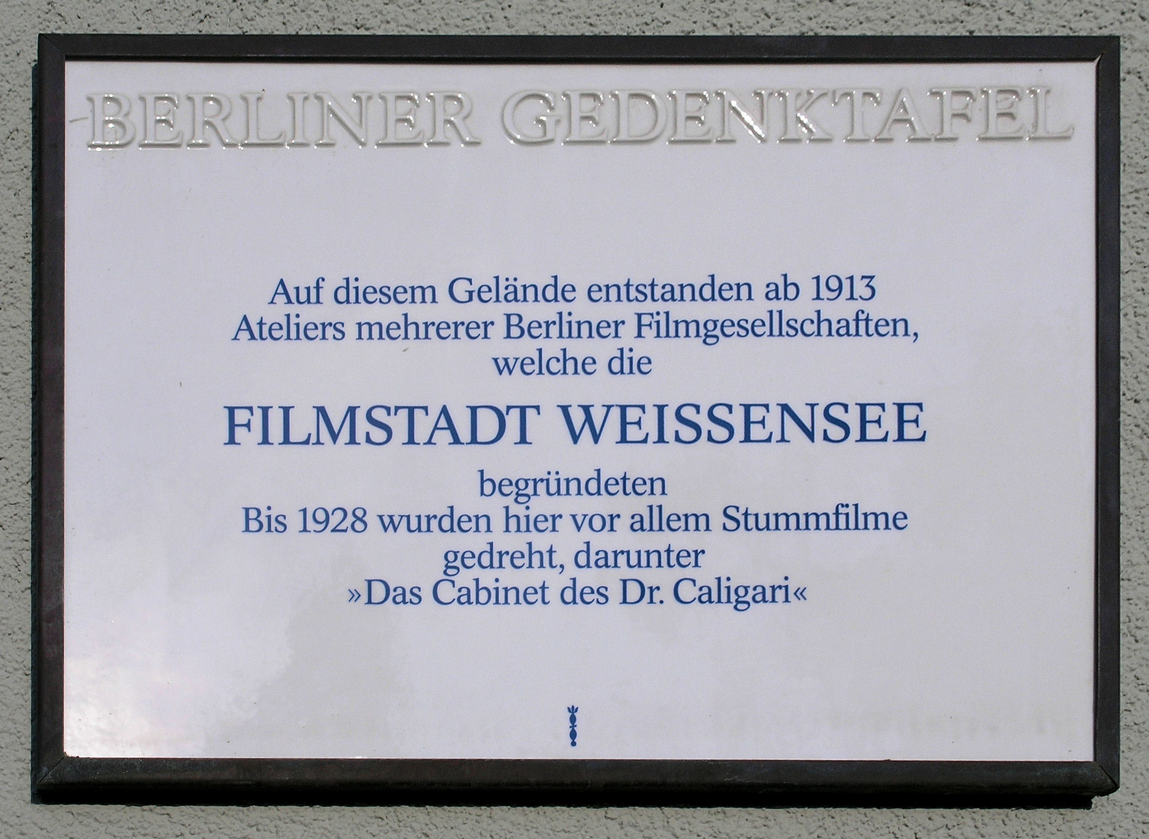 Berlin memorial plaque, Filmstadt Weißensee, Berliner Allee 249, Berlin-Weißensee, Germany